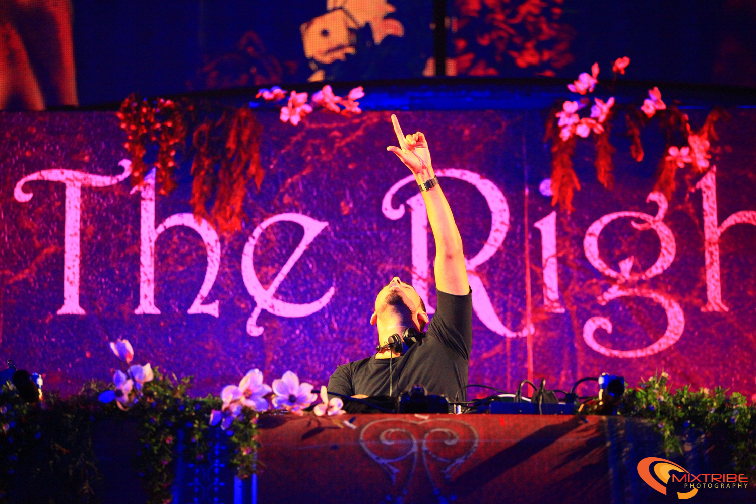 Afrojack - Tomorrowworld 2013 chattahoochee atlanta